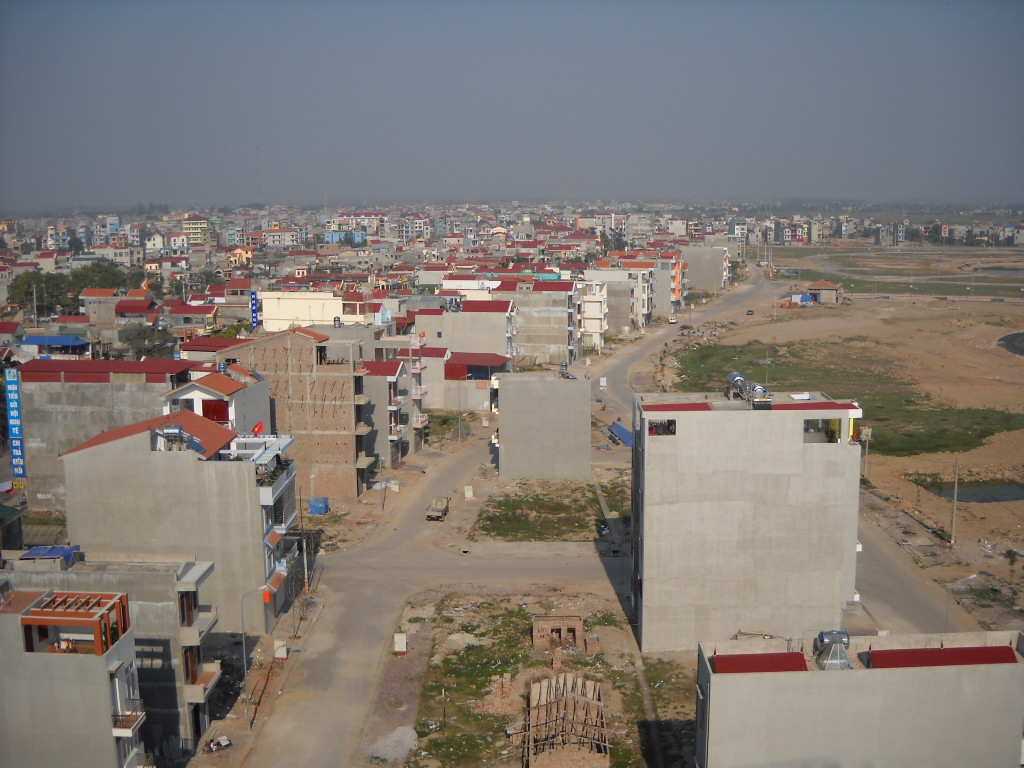 Bắc Giang, Vietnam